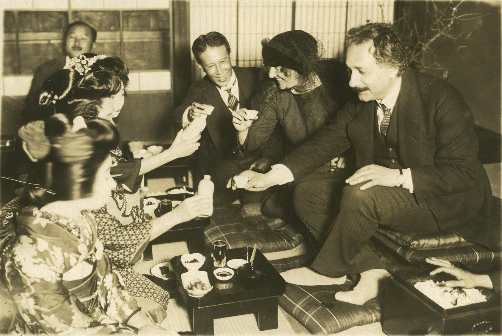 Albert and Elsa Einstein in Japan, November-December 1922